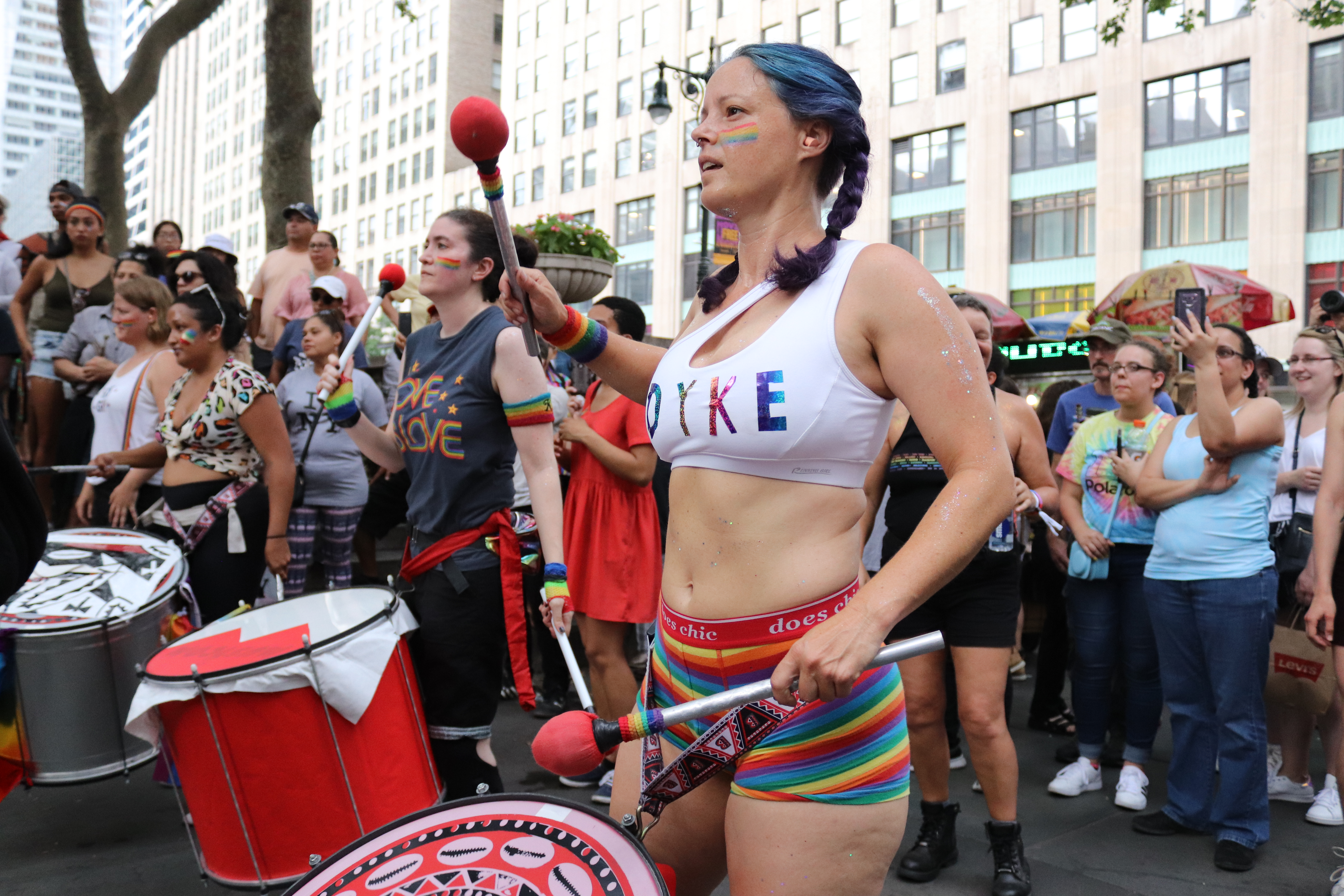 Gathering before 27th Annual NYC DYKE MARCH at Bryant Park at West 42nd Street and 5th Avenue in New York City, NY on Saturday evening, 29 June 2019 by Elvert Barnes Photography Batalá New York Follow 27th NYC DYKE MARCH event page at NYC DYKE MARCH website at 49th NYC LGBTQ WORLD PRIDE 2019 docu-project at